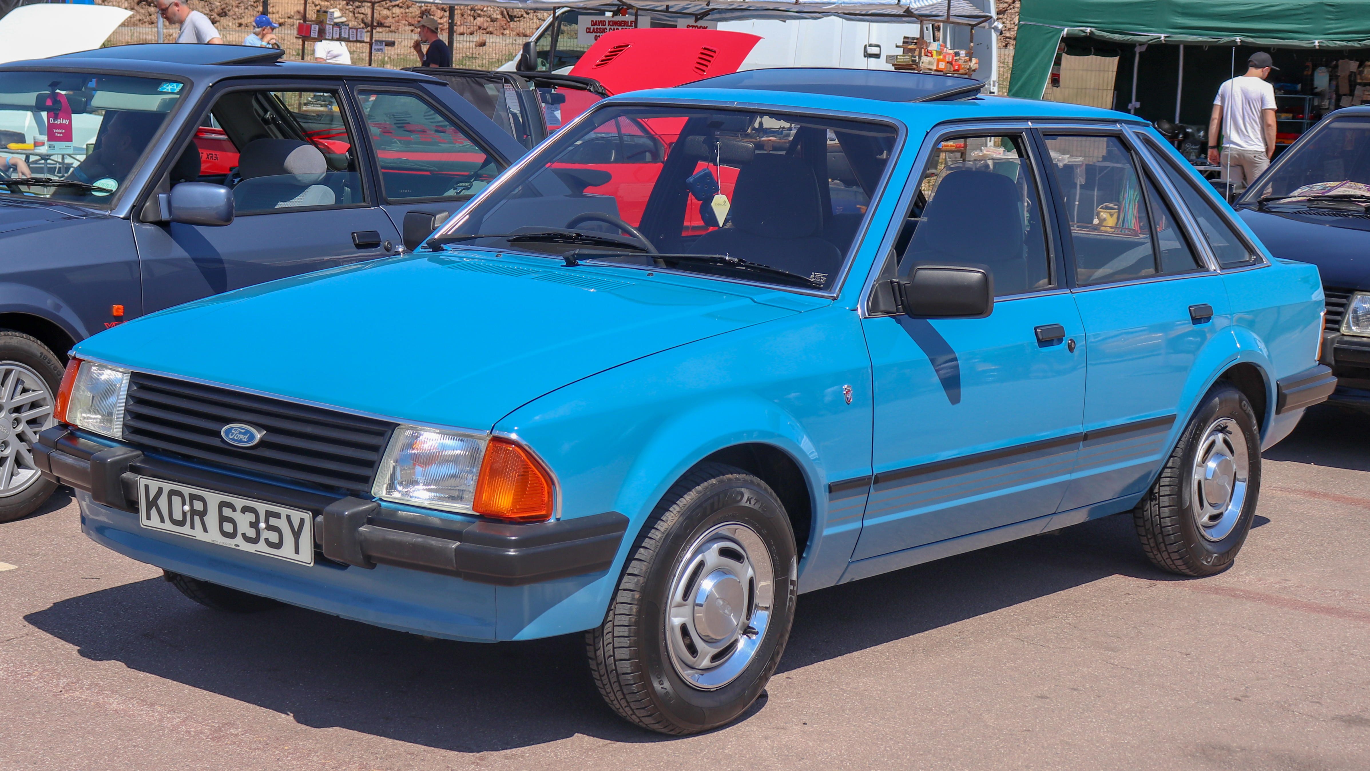 1982 Ford Escort Ghia 1.6 Front Taken at the British Motor Museum Old Ford Rally 2018, Gaydon